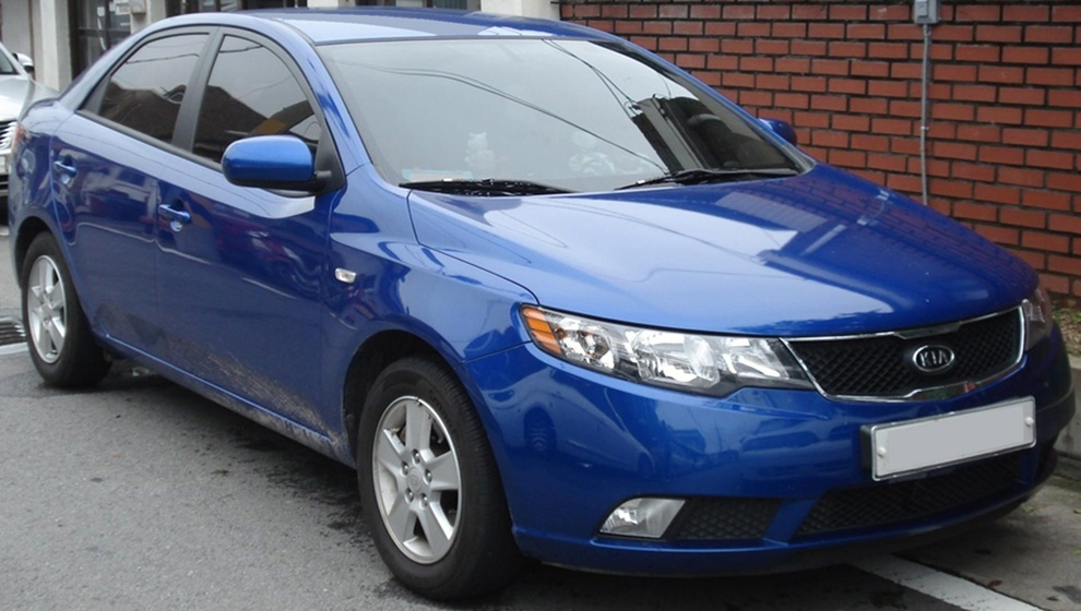 Kia Forte